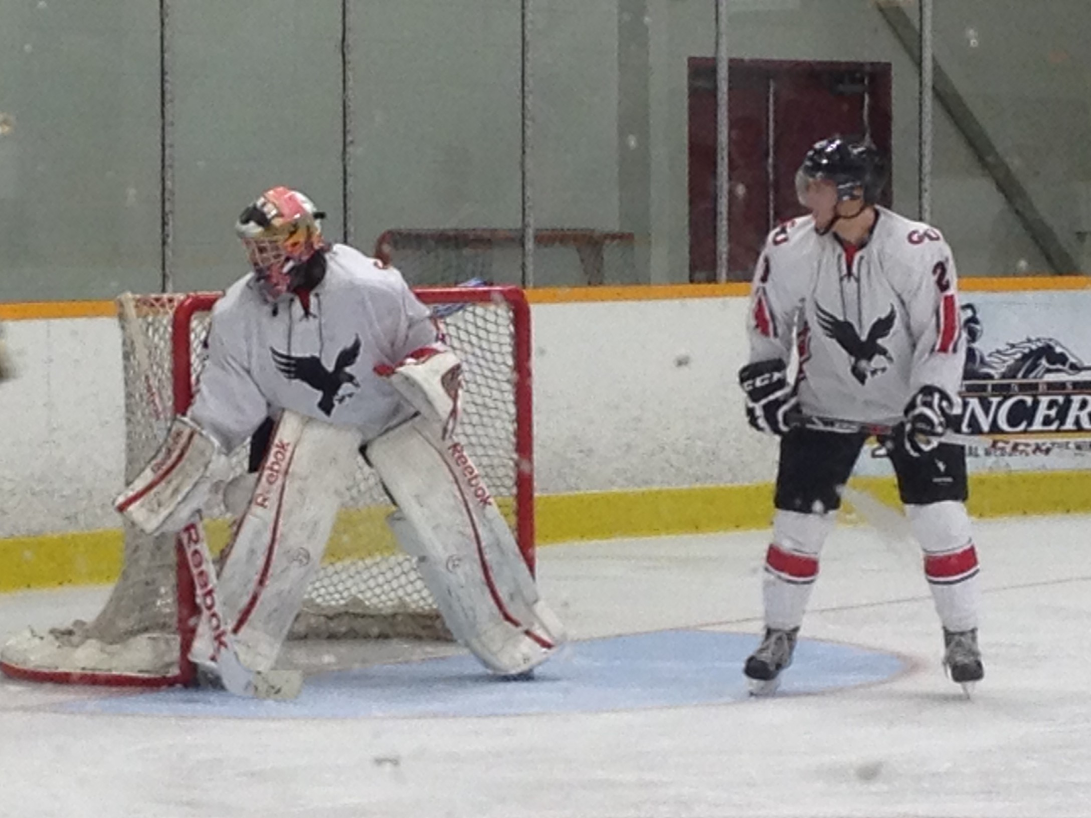 Photo taken by Devan Mighton of CIS men's hockey.